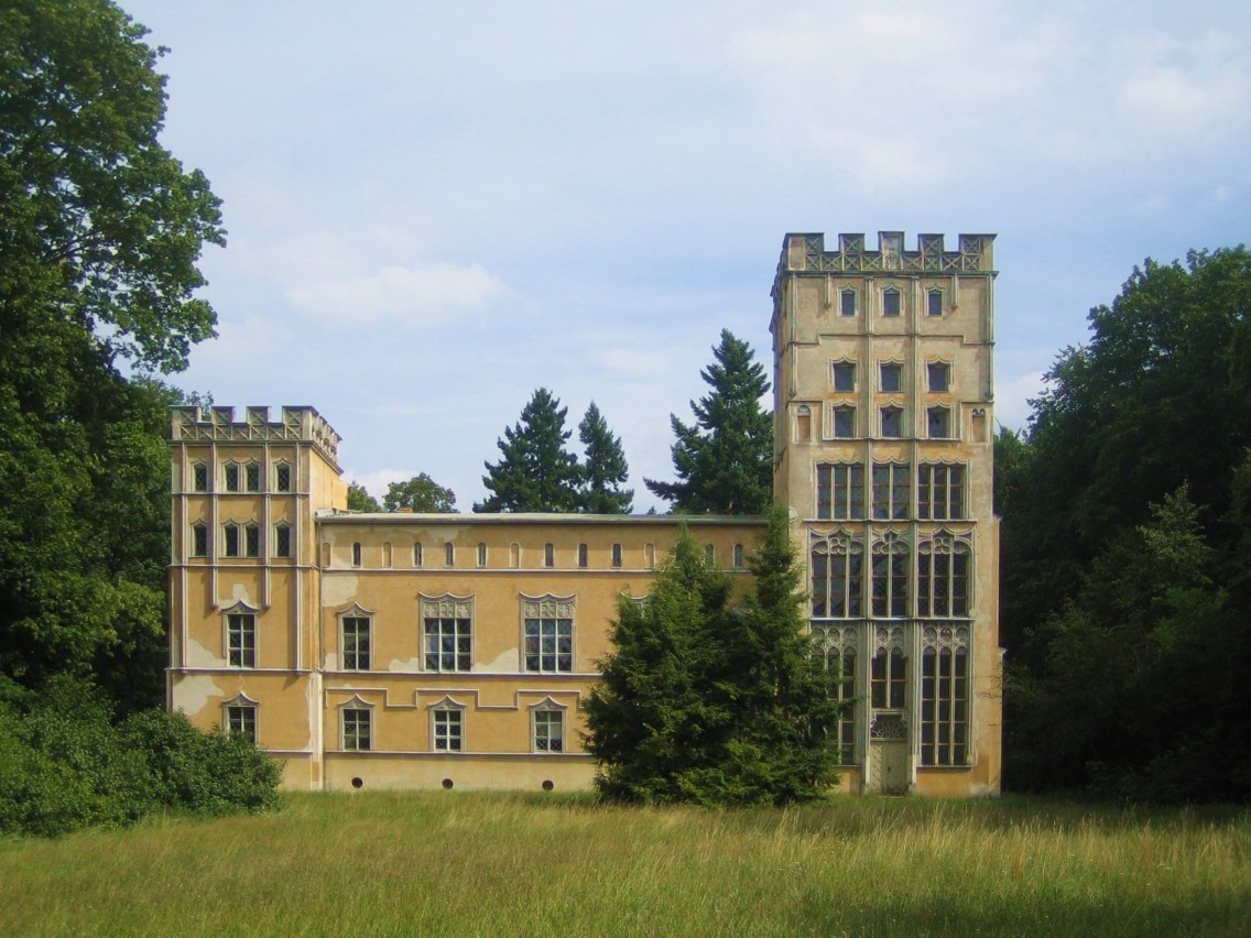 Berlin, Pfaueninsel (Isle of peacocks). The so called Kavaliershaus (house of cavaliers).